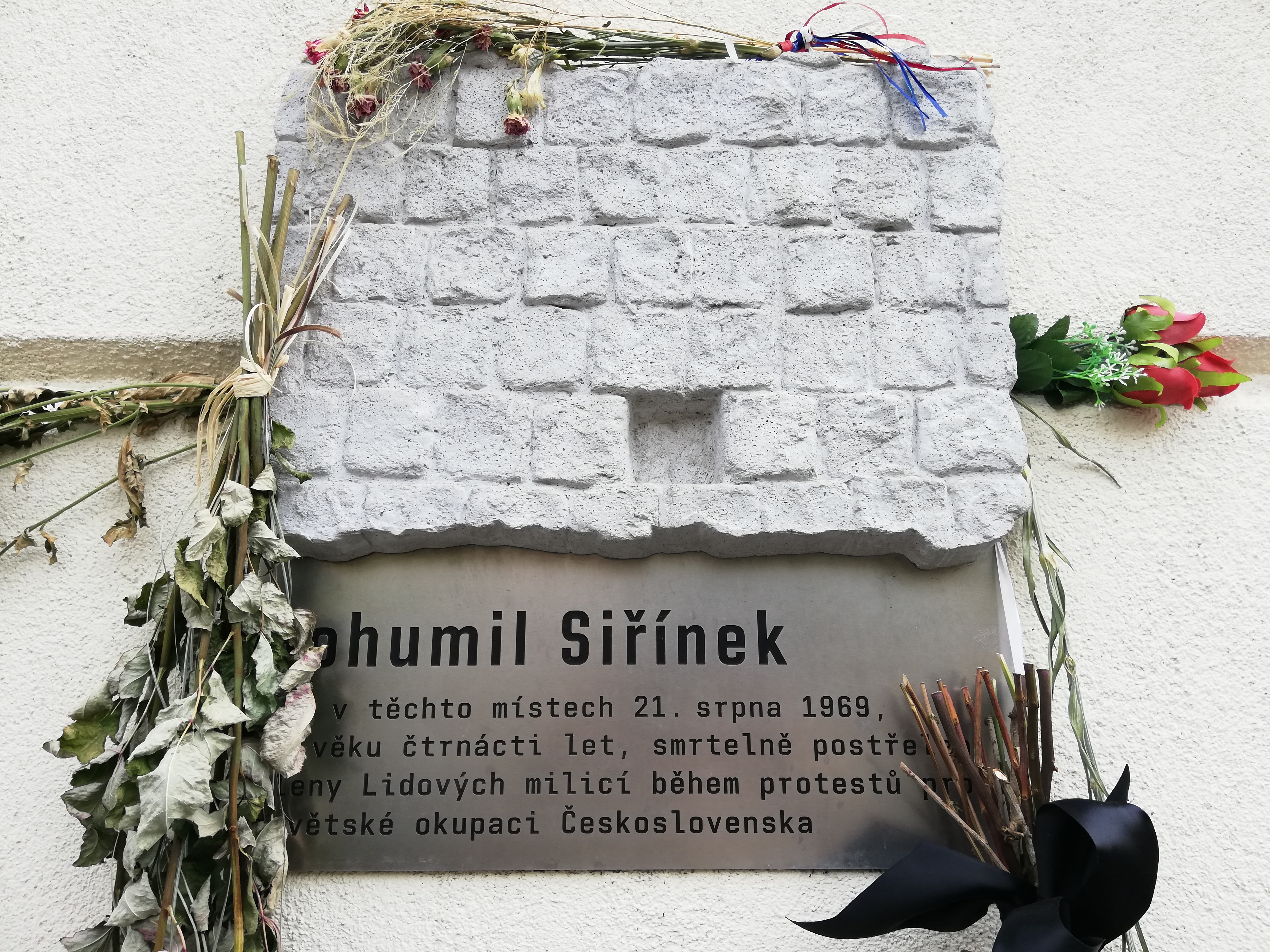 In Prague (on August 21, 1969) 15 people were shot and near Tylovo Square (near the clinic in Londýnská street in Vinohrady), a 14-year-old elementary school pupil from South Bohemia Bohumil Siřínek (* 23 April 1955 - † August 24, 1969, Prague) was fatally wounded by gunfire from armed People's militiamen. The memorial Plaque is on the outer wall of the hotel Beránek (address: Prague 2, Bělehradská 478/110). The author of the memorial plaque is the sculptor Jakub Grec. Part of the memorial plaque is also a concrete relief of the pavement. Void place of pavement cube symbolizes wasted killed young human life. Text on the commemorative plaque: “Bohumil Siřínek / was at these places on August 21, 1969, at the age of fourteen, fatally shot by members of the People's Militia during protests against / Soviet occupation of Czechoslovakia”.